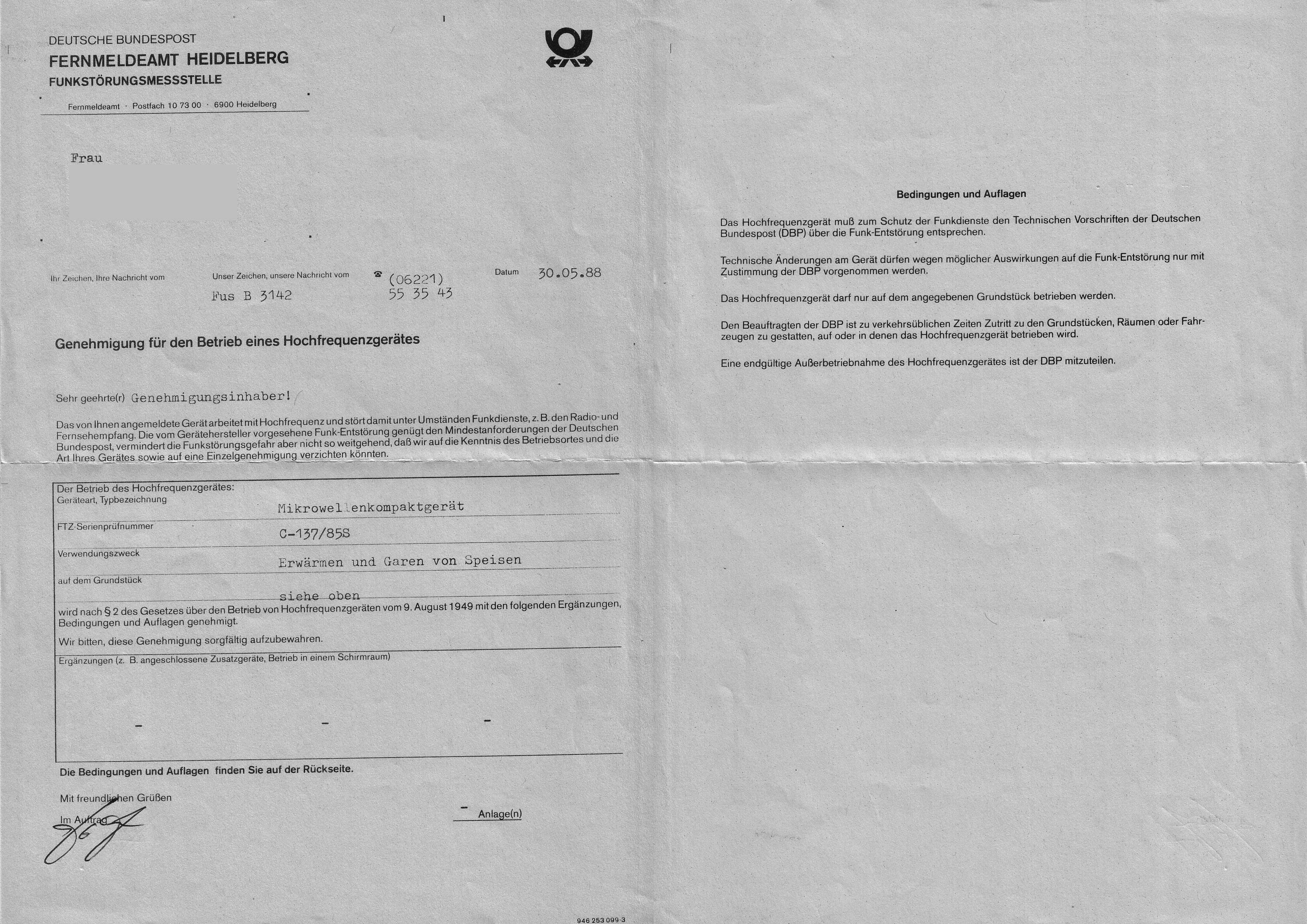 Permission for the operation of a high frequency unit (microwave oven) issued by the Deutsche Bundespost, Germany 1988